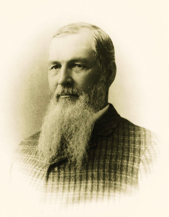 Noah Armstrong, Montana miner and horse raiser